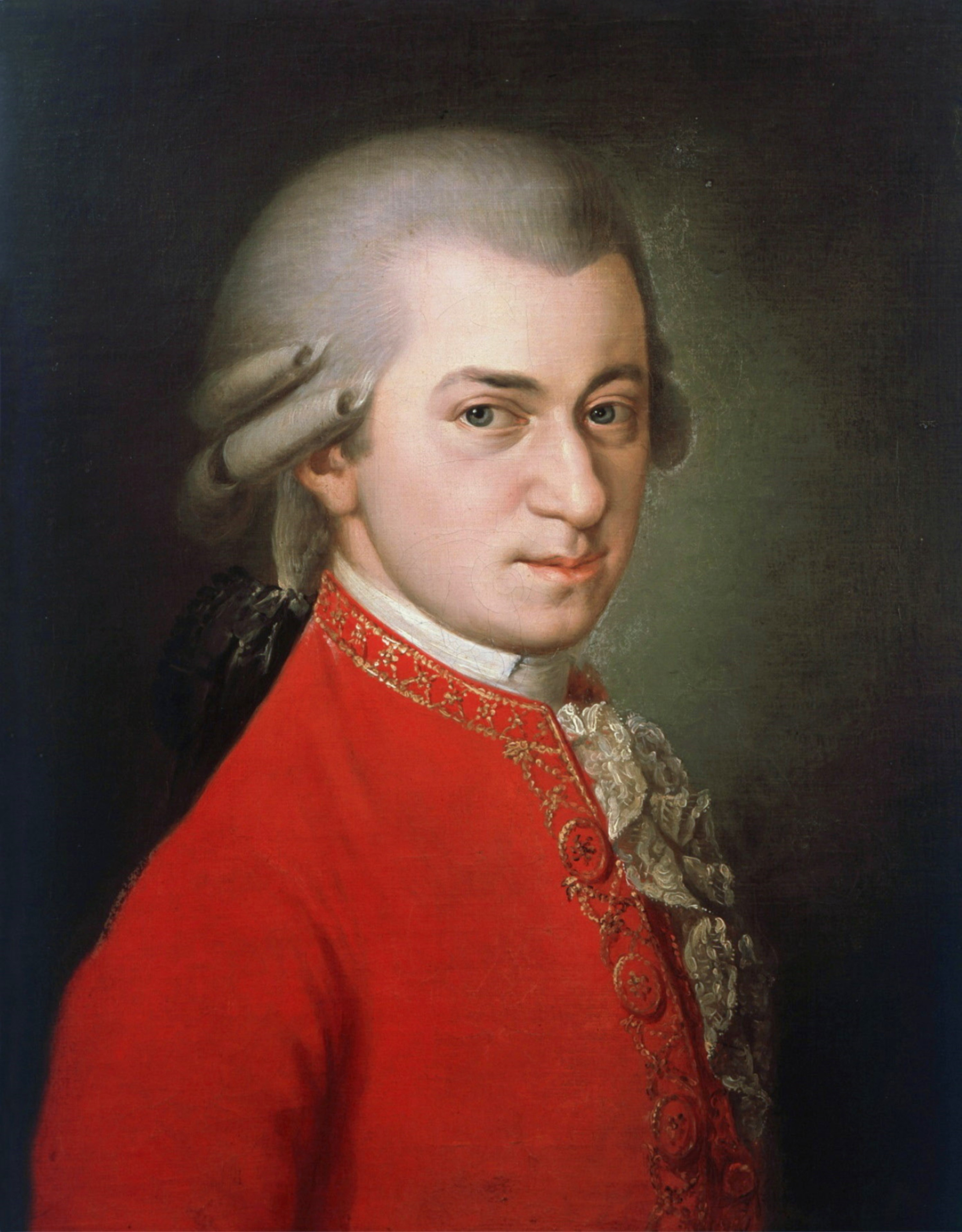 This posthumous portrait of Wolfgang Amadeus Mozart was painted by Barbara Kraft at the request of Joseph Sonnleithner in 1819, long after Mozart died. Sonnleithner, who was making a "collection of portraits in oils of well-known composers" (Deutsch) wrote to Mozart's still-living sister Maria Anna ("Nannerl"), asking her to lend a picture to Kraft (a well-known artist working in Salzburg). Here is part of Nannerl's reply: ... [her friend ] Councillor von Drossdick ... sent the artist to me to see all 3 [of my] pictures [of Mozart], the one that was painted when he came back from the Italian journey is the oldest, he was then just 16 years old, but as he had just got up from a serious illness, the picture looks sickly and very yellow; the picture in the family portrait when he was 22 years old is very good, and the miniature, when he was 26 years old, is the most recent I have, I therefore shewed this one to the painter first; it seemed to me from her silence that is would not be very easy to enlarge it, I therefore had to shew her the family portrait and the other one, too. ... she wants to take her copy from the family portrait and introduce only those features from the small picture which make him look somewhat older than in the big picture." Deutsch identifies the three pictures as: "Perhaps" the portrait by Knoller, Milan 1773. [1] The family portrait by della Croce. A lost small version of the famous portrait by Joseph Lange. For present purposes, this implies that Kraft painted this with some basis to go on (and not completely out of her head, as the painter of this ridiculous picture did). Also, it tells us that Nannerl thought that the della Croce picture was "very good".